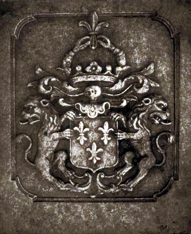 Arms of van Westervelt, as emblazoned on the tomb, in the nave of the church in Harderwyk, Netherlands.